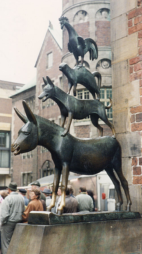 Bremen Town Band, Bremen, Germany. Taken by Adrian Pingstone in 1990 and released to the public domain.